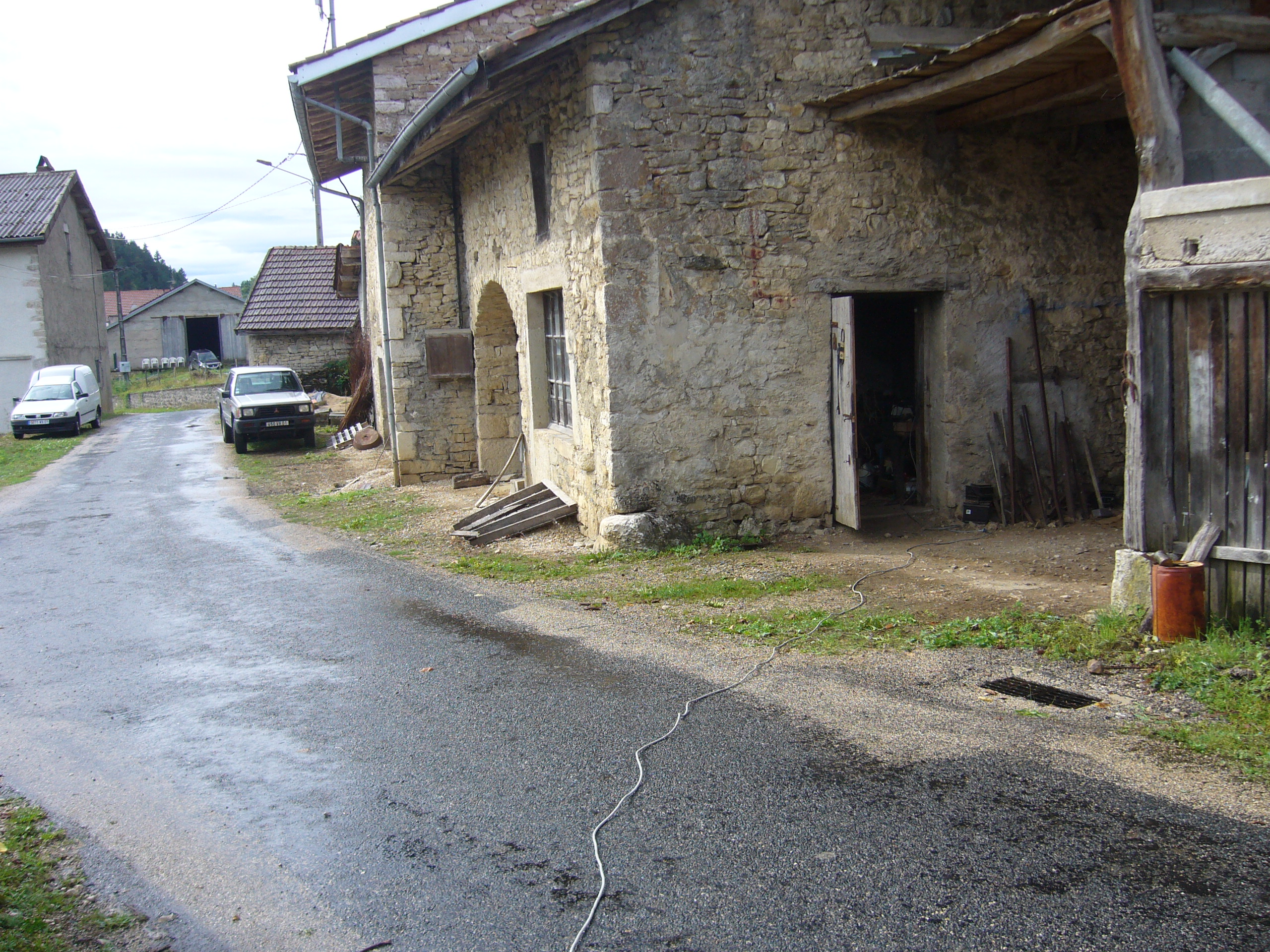 Chougeat-chemin-du-maquis